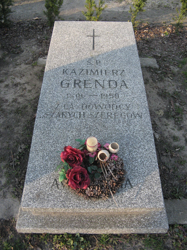 Boze Cialo Cemetery in Poznan. Gravestone of Kazimierz Grenda